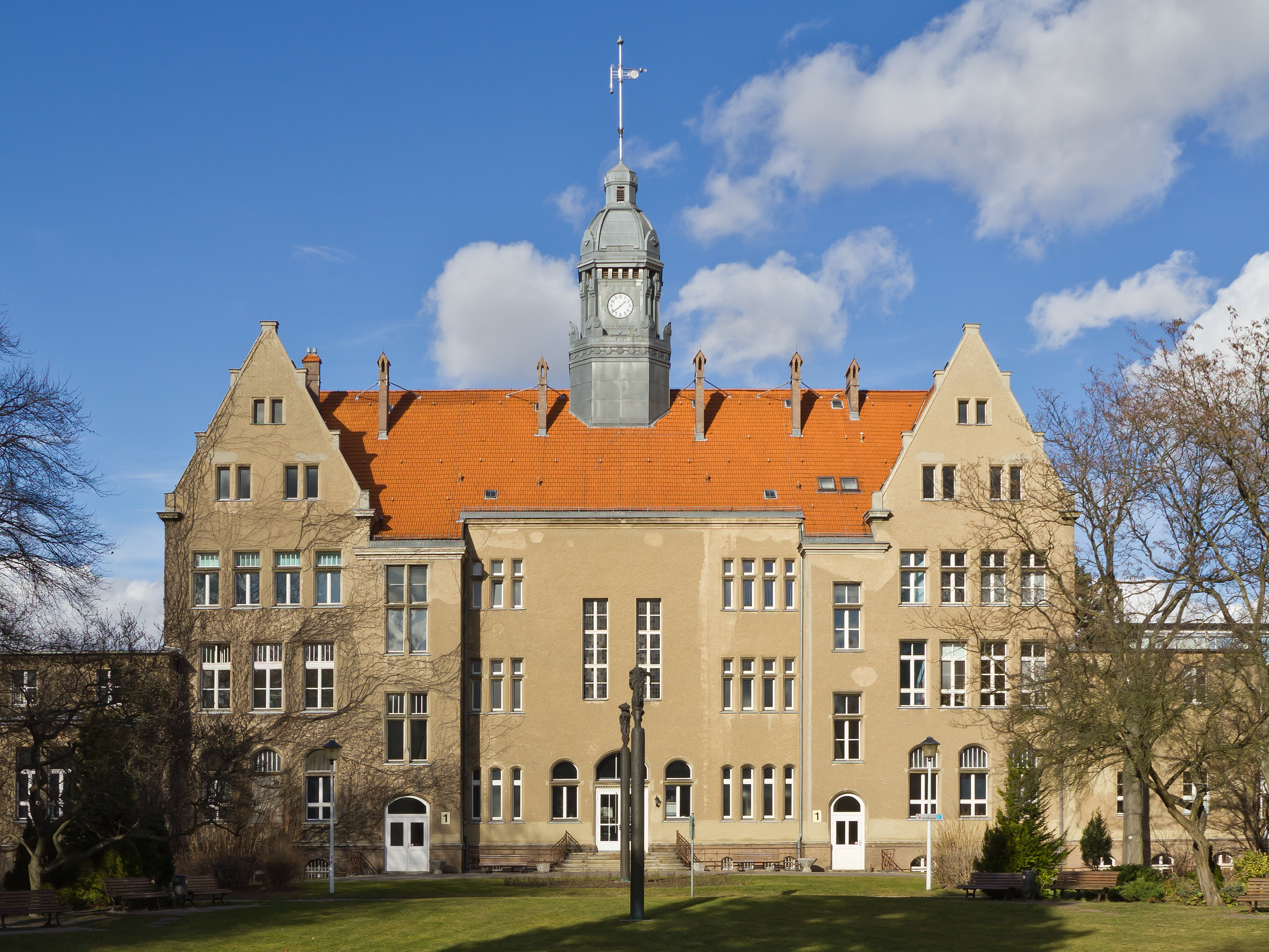 Old building of the Augusta Victoria Hospital in Berlin-Schöneberg, Germany